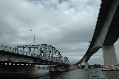 Krung Thep and Rama III Bridges